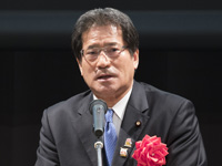 Teruhiko Mashiko, Member of the House of Councillors, attended the symposium in Beppu City, Ōita Prefecture on January 15, 2015. (For terms of use, see サイトのご利用について（利用規約）｜資源エネルギー庁について｜資源エネルギー庁.)